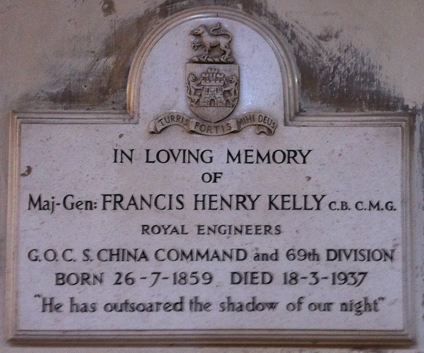 Maj Gen Francis Henry Kelly CB, CMG Royal Engineers GOC S China Command and 69th Division Born 26-7-1859 Died 18-3-1937